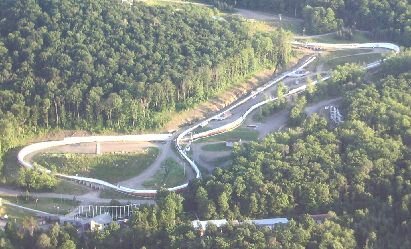 Mt. Van Hoevenberg Olympic Bobsled Run in Lake Placid, New York.